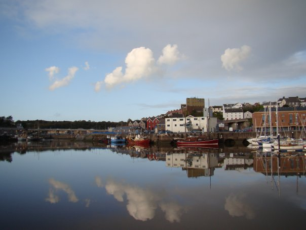 Milford Haven Docks